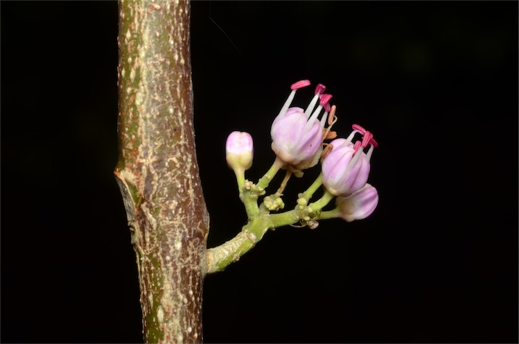 Melicope elleryana flower detail, in Mount Annan Botanic Garden, Campbelltown, N.S.W.